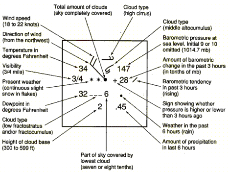 National Weather Service Forecast Office, Nashville, Tennessee